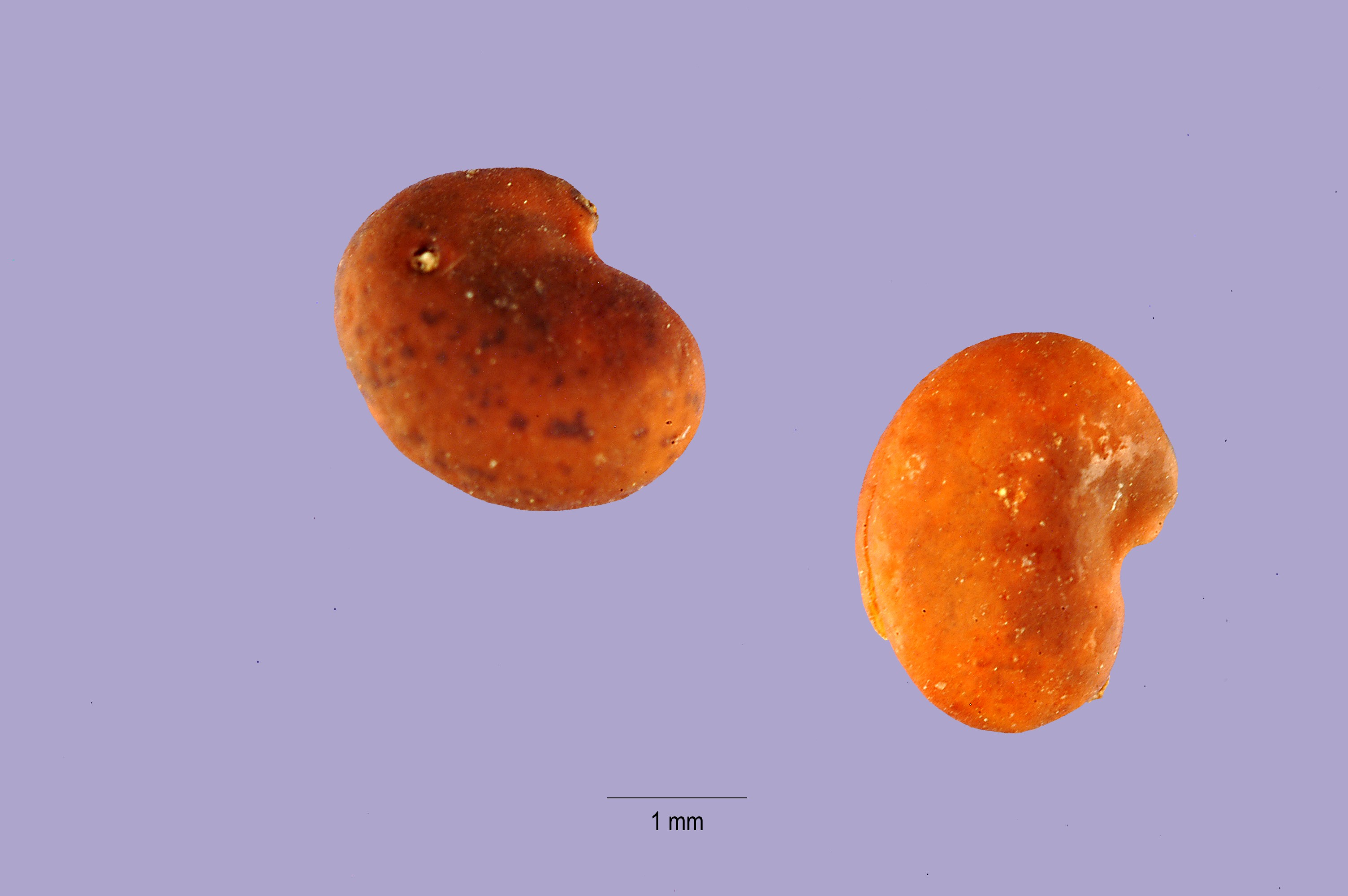 seeds of Astragalus bolanderi from Tracey Slotta. Provided by ARS Systematic Botany and Mycology Laboratory. United States, CA, Echo Lane.